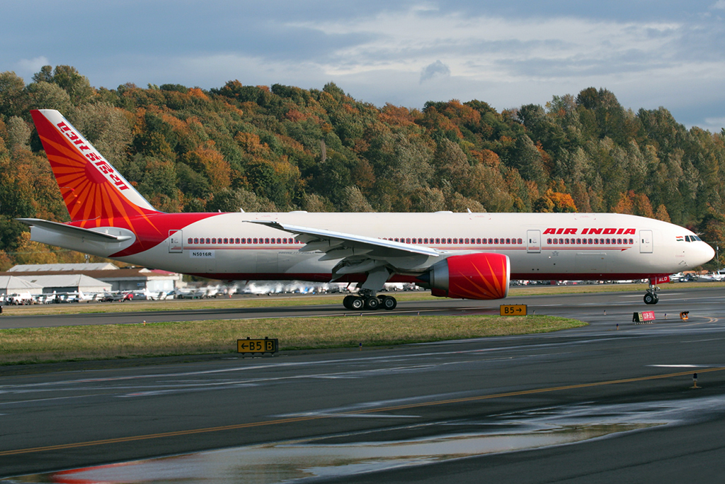 BOEING 014/N5016R test flight 777-200LR Boeing Field - Seattle, WA October 16, 2007 Uploaded to Wiki by Nikhil Kulkarni